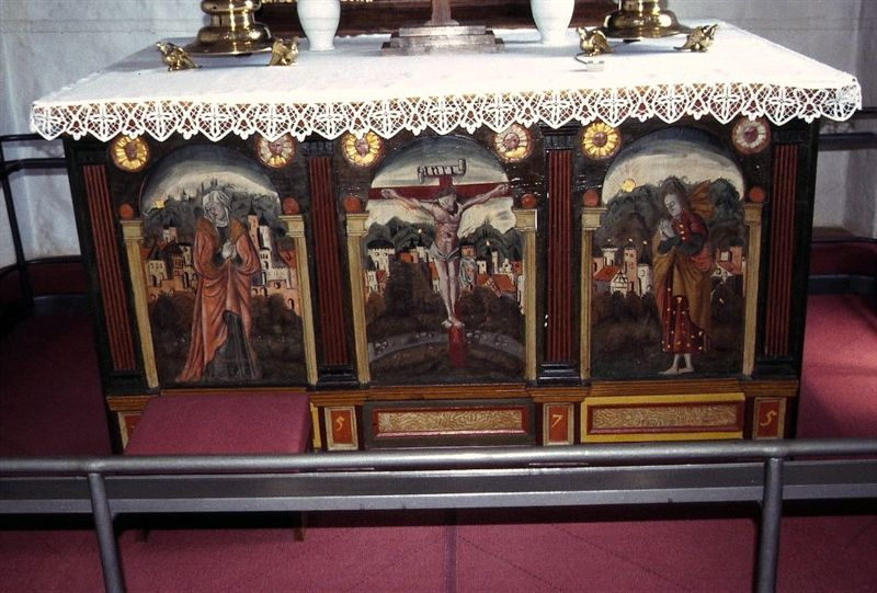 Fårevejle Kirke (church) in Odsherred Kommune. From apr. 1100